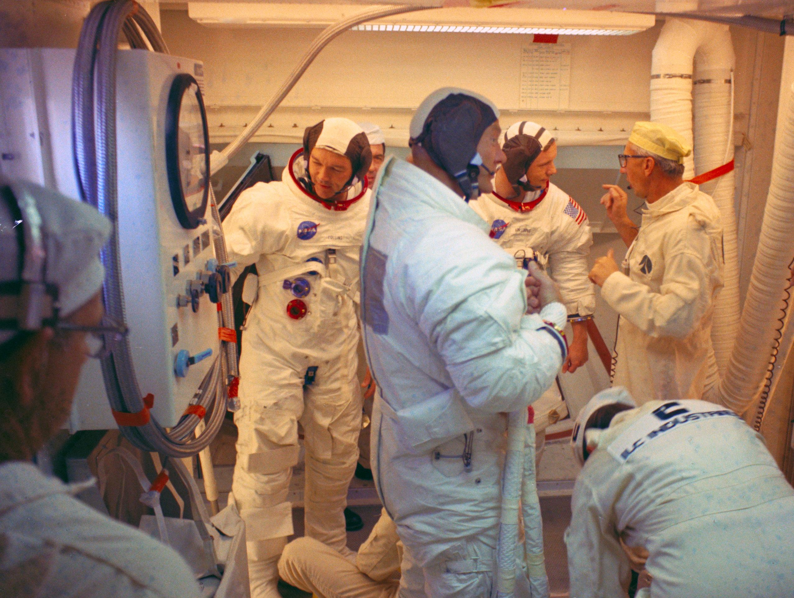 Within the White Room atop the gantry on Launch Complex 39 Pad A, the Apollo 11 astronauts egress from the Apollo spacecraft after participation in the Countdown Demonstration Test. In the foreground of the photograph is Astronaut Buzz Aldrin. Pad leader Guenter Wendt talks with Neil Armstrong. Astronaut Michael Collins stands to the left of Armstrong.